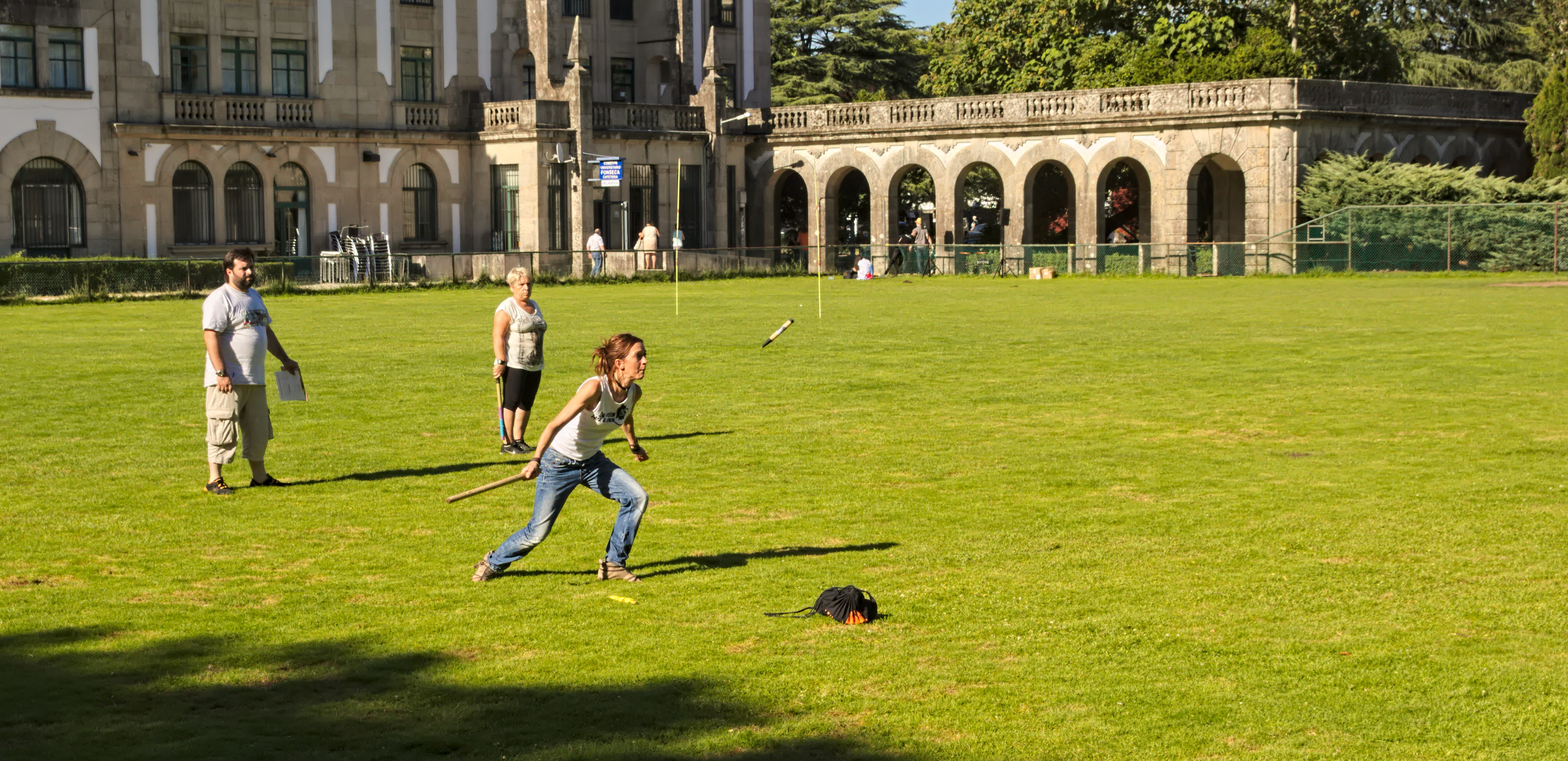 Game of billarda in Santiago de Compostela, Galicia, Spain.